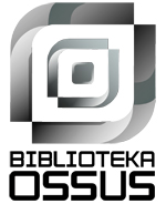 Biblioteka Ossus logo - Polish internet encyclopedia of Star Wars universe.